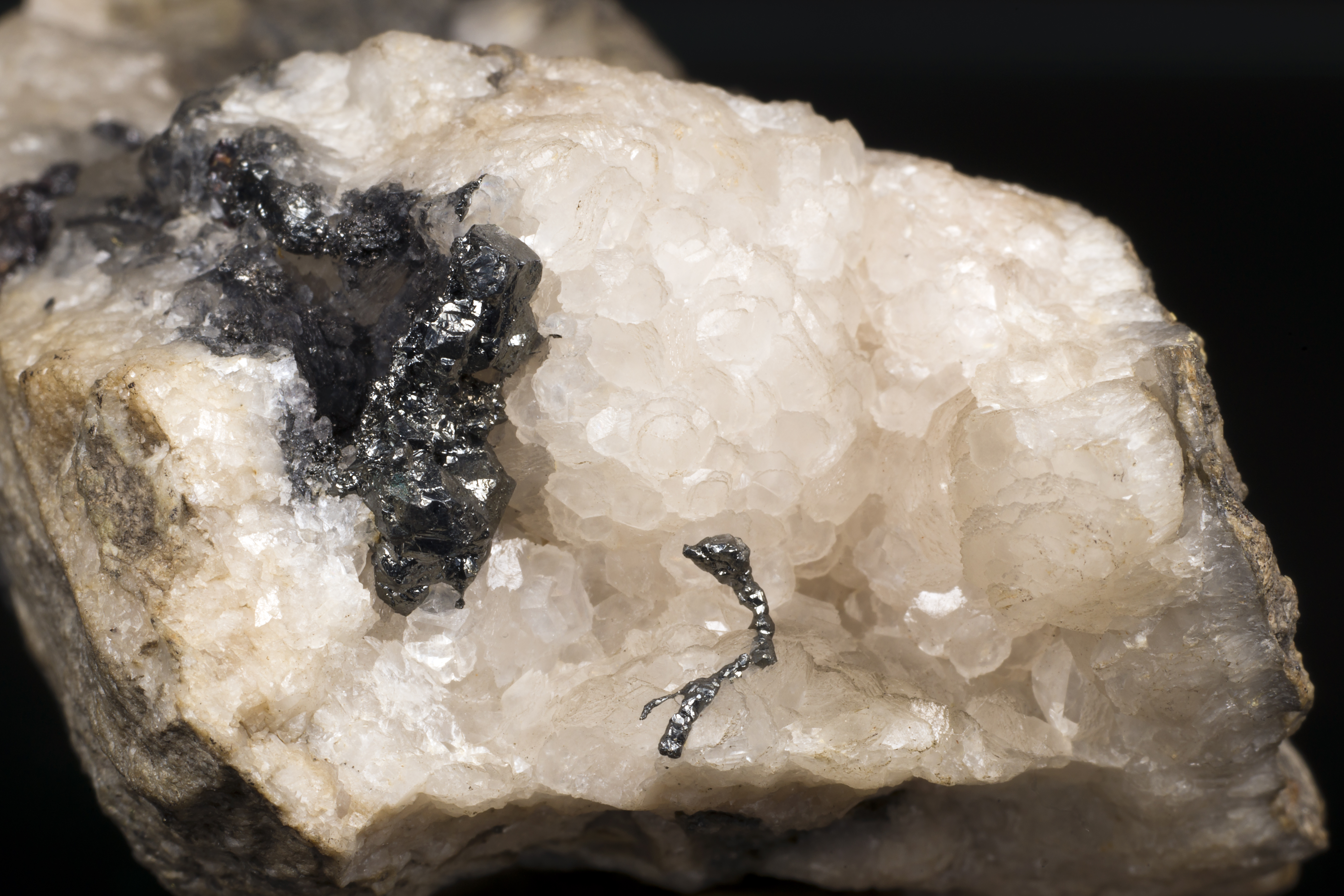 Acanthite on Calcite locality : Abraham Shaft ,Himmelfahrt Mine, Freiberg District, Erzgebirge, Saxony, Germany Size 4x3cm